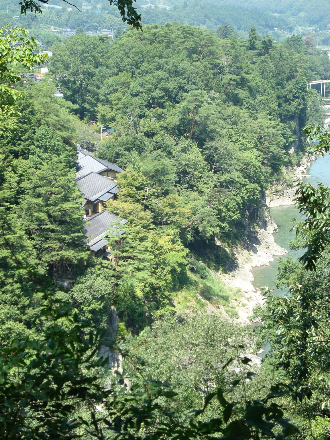 Tenryukyo, the ravine of Tenryu rivar at Iida, Nagano, Japan.